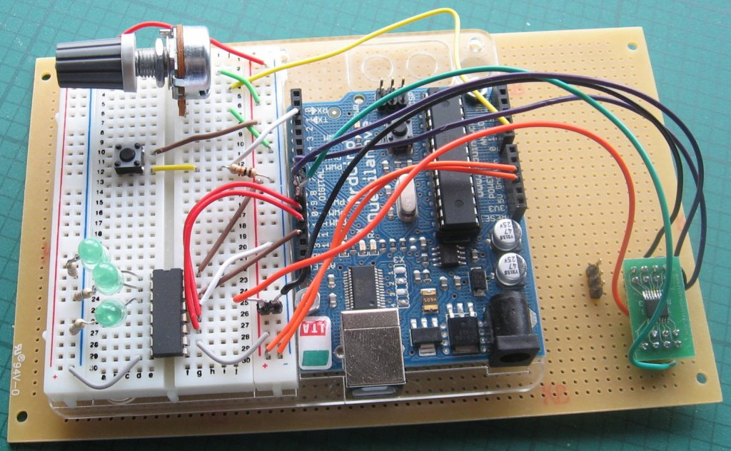 Here is the AD5235 patched into the Arduino Duemilanove, which is sending it commands over the two purple and one green wire. The black and orange are power. The regular analog pot is to vary the timing of the resistance pattern, and the LEDs, connected to a 74HC595N shift register, shows what pattern it is set to. The mini pushbutton cycles through the patterns. I really messed up the Roth breakout board- one much neater solution would have been to have the inner two rows of pins headers face down, for insertion onto the breadboard, with the outer row on top. But I didn't think of that.